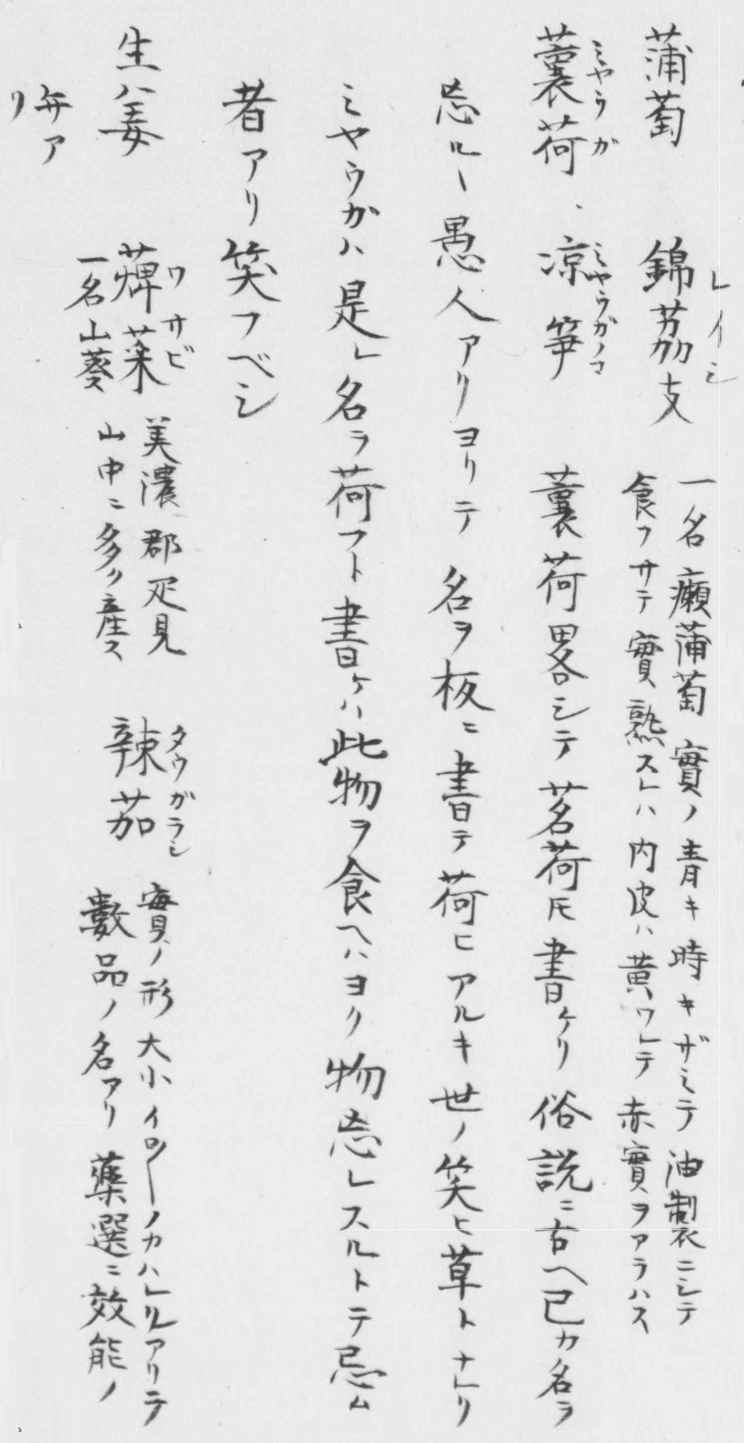 Mr Nakagawa who is a teacher of Hamada domain had edited the history of Iwami region in 1820. This page contains the information of wasabi in Hikimi